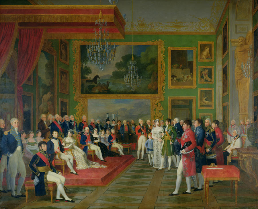 The Marriage of Eugene de Beauharnais